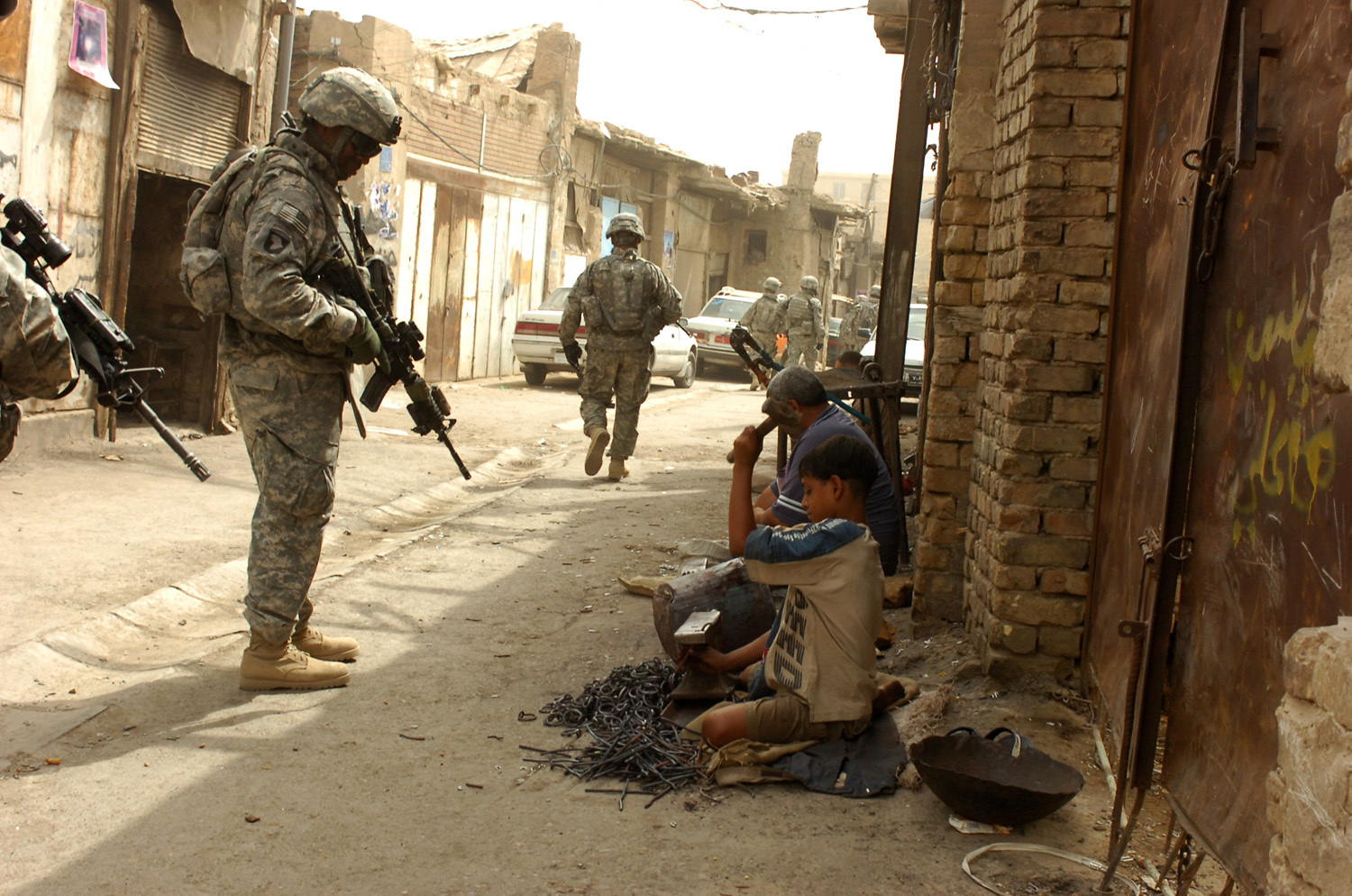 Sgt. 1st Class Stanford Cunningham, a platoon sergeant and native of Atlanta, watches a young Iraqi boy pound steel into chainlinks during his platoon's patrol through the market area in the Karkh District of Baghdad Sept. 8. Cunningham is a member of 1st Platoon, Company I, 4th Squadron, 2nd Stryker Cavalry Regiment, based from Vilseck, Germany, but operating in central Baghdad with the 2nd Brigade Combat Team, 1st Cavalry Division.